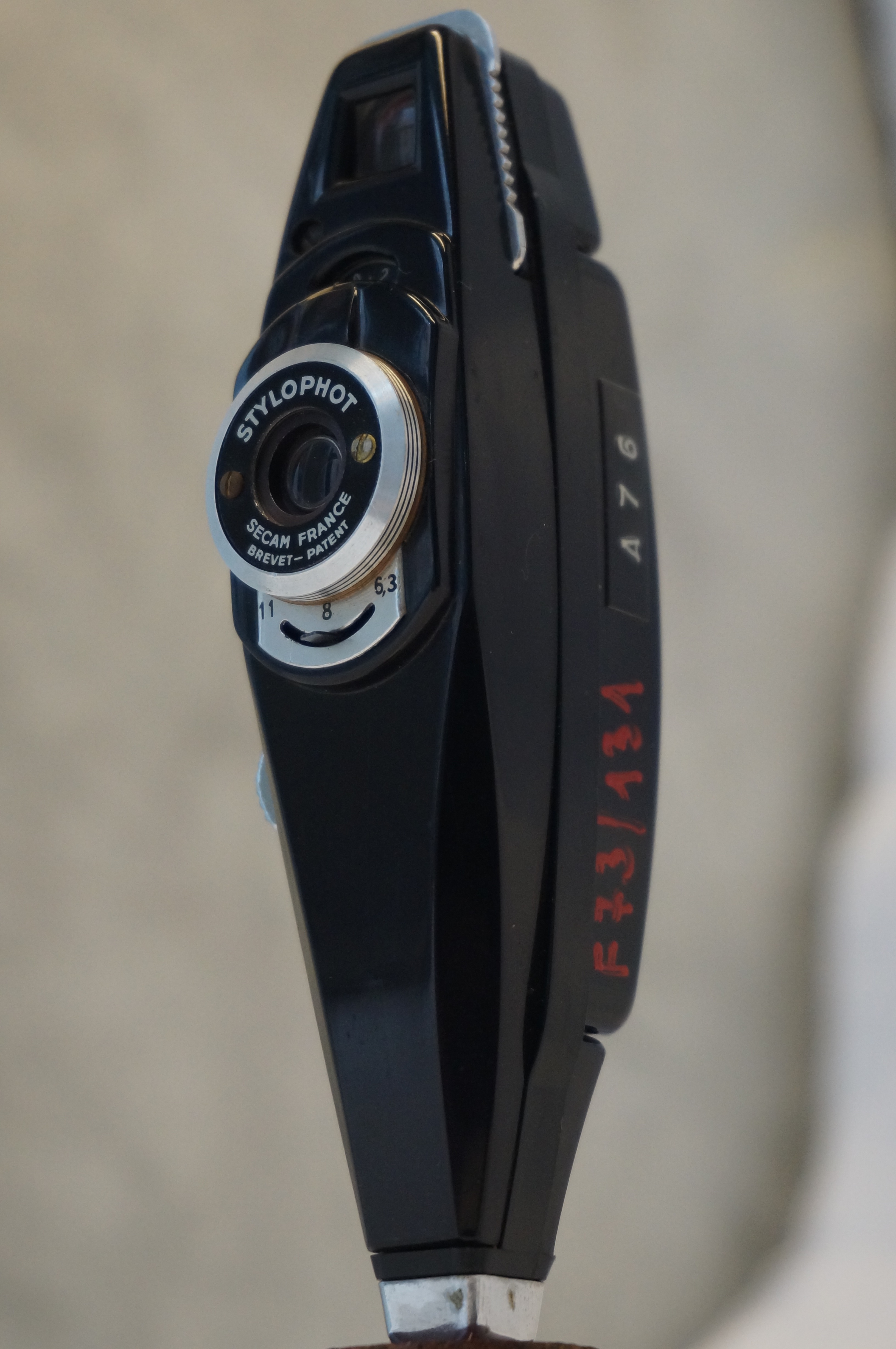 Stylophot subminiature viewfinder camera produced in 1955 by Secam.